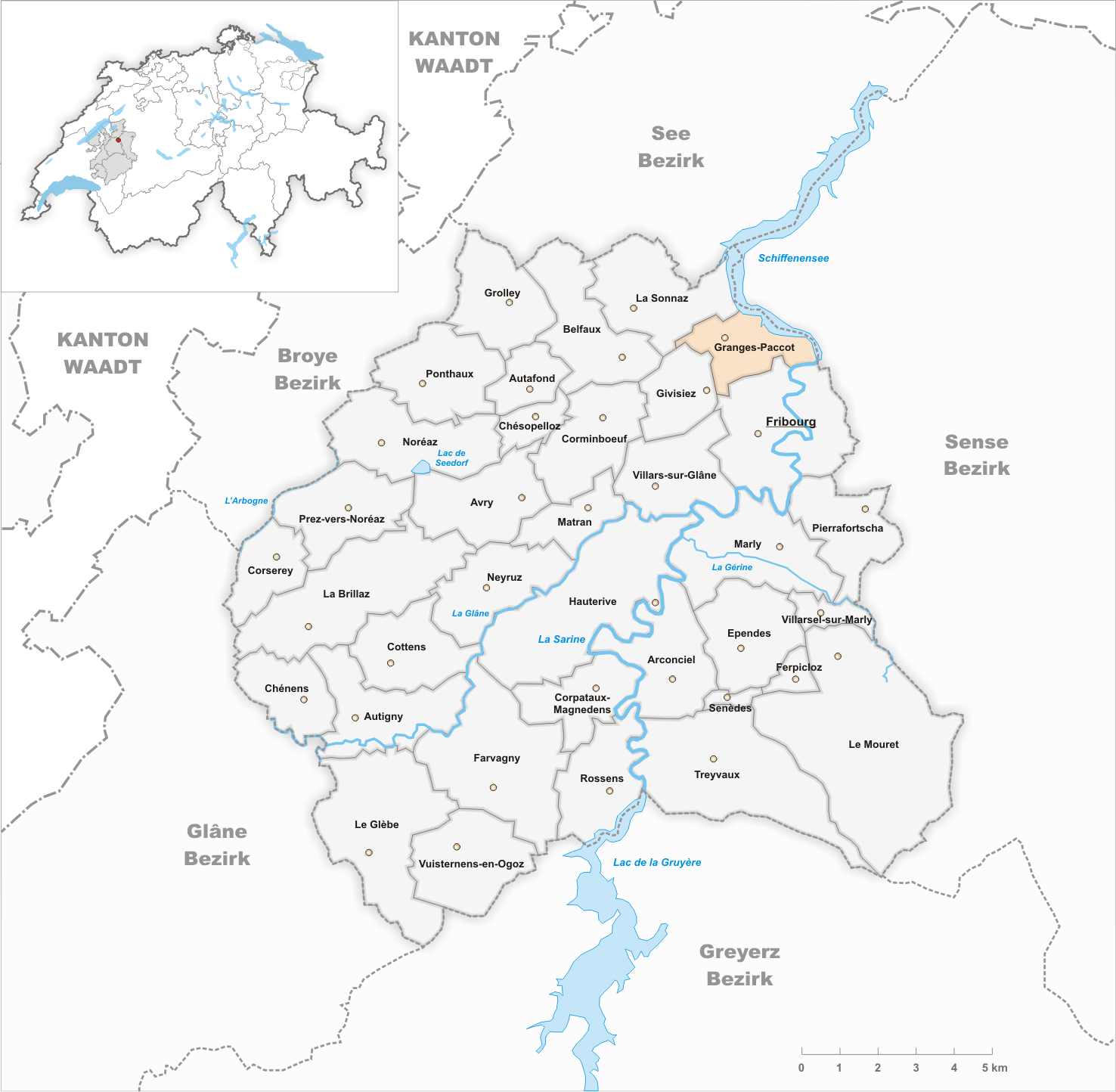 Municipality Granges-Paccot